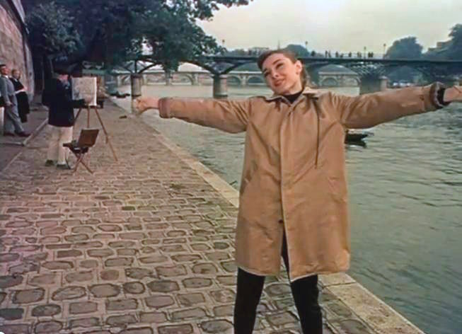 Audrey Hepburn in Funny Face - trailer (cropped screenshot)